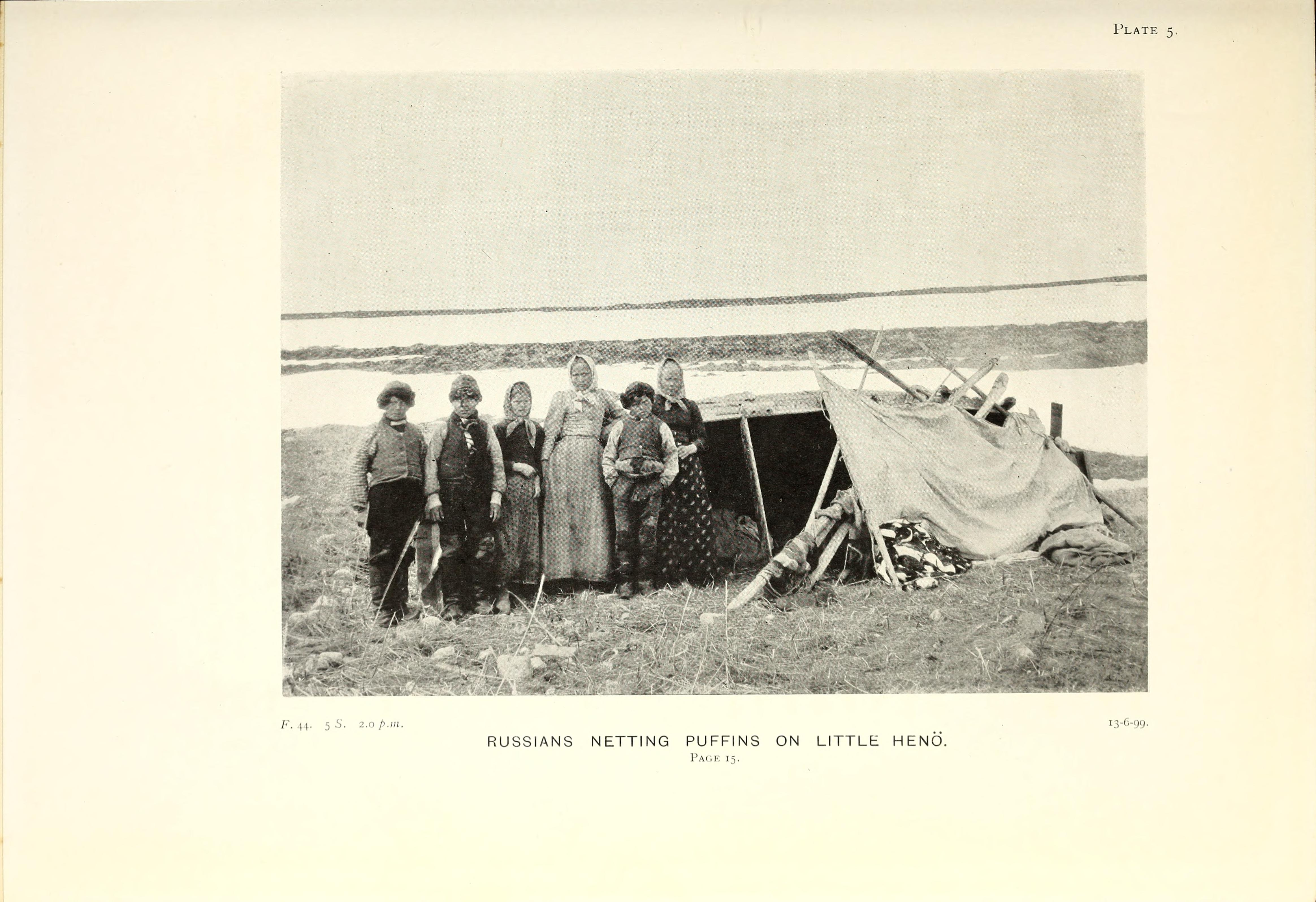 Three summers among the birds of Russian Lapland /